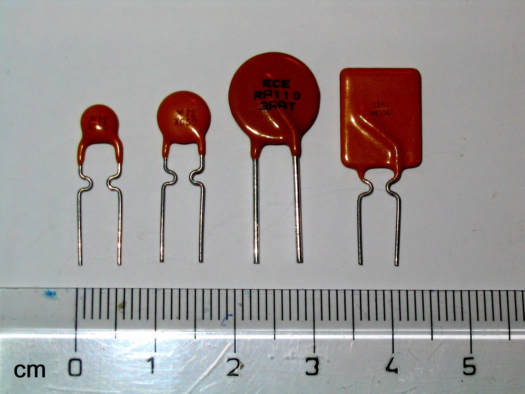 Polyswitch PTC